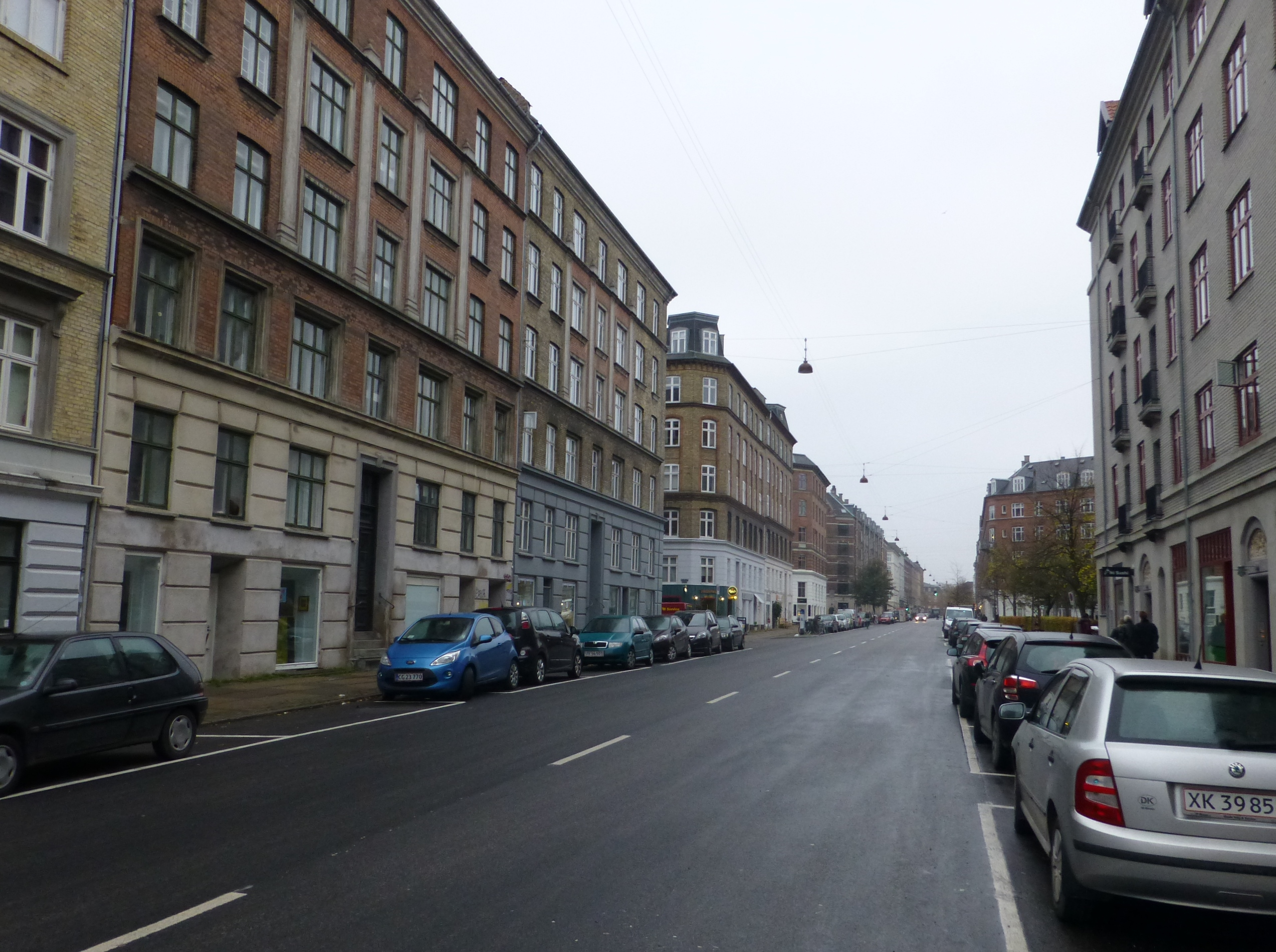 The street Århusgade in Østerbro in Copenhagen.